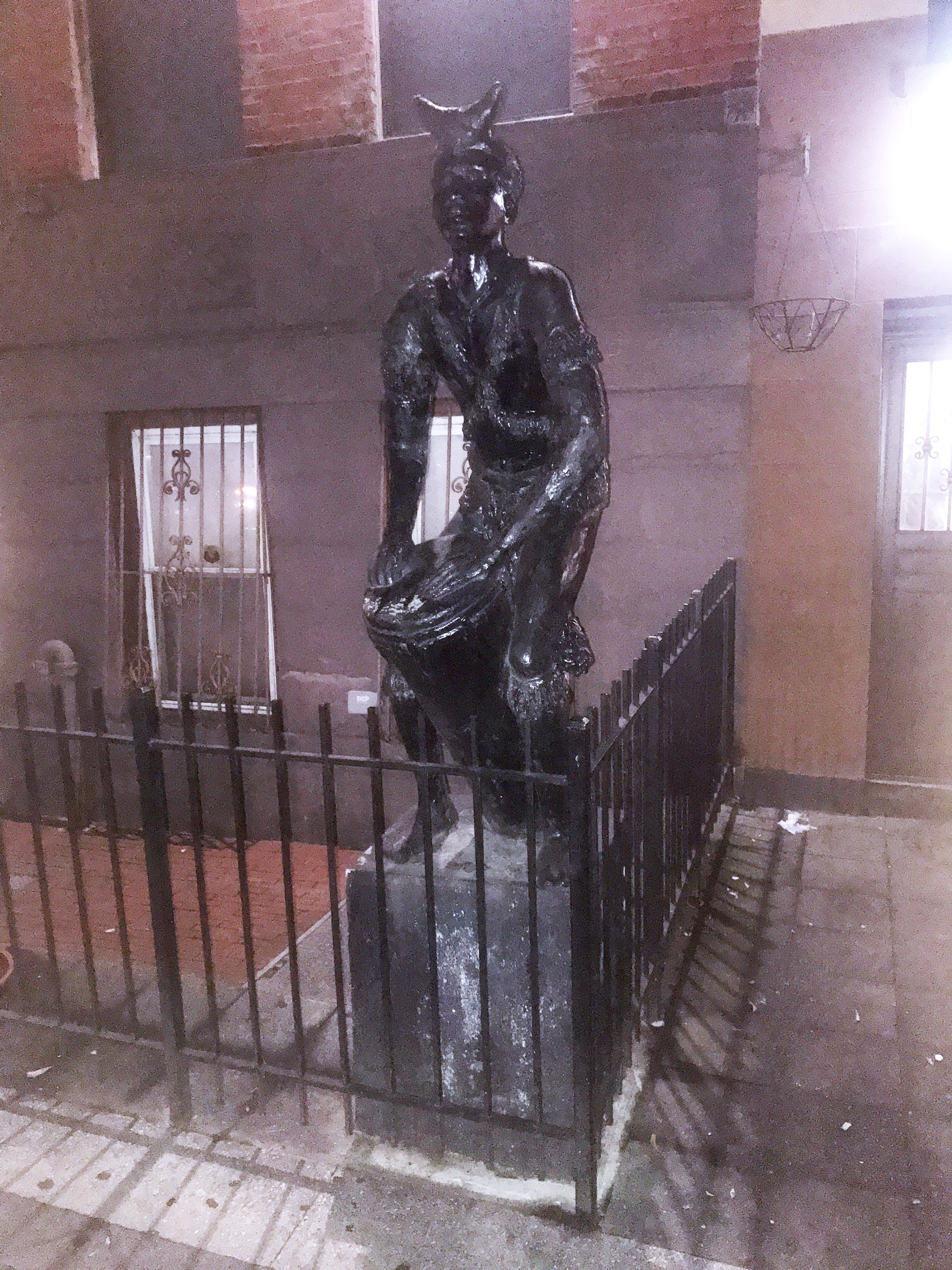 African Drummer statue on 135th st between adam clayton powell blvd and frederick douglass blvd